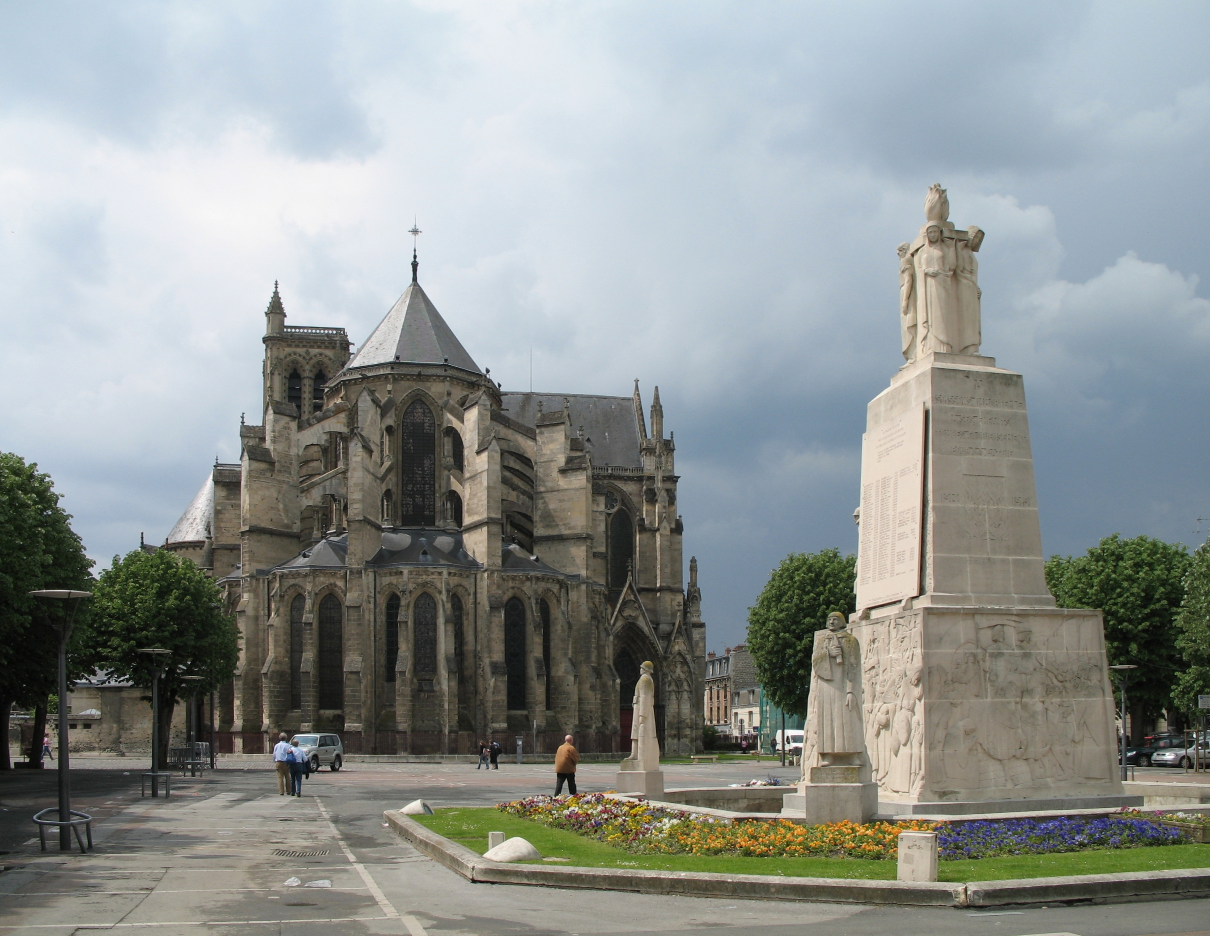 Soissons (Département de l'Aisne, France): Cathedral and War Monument before a thunderstorm